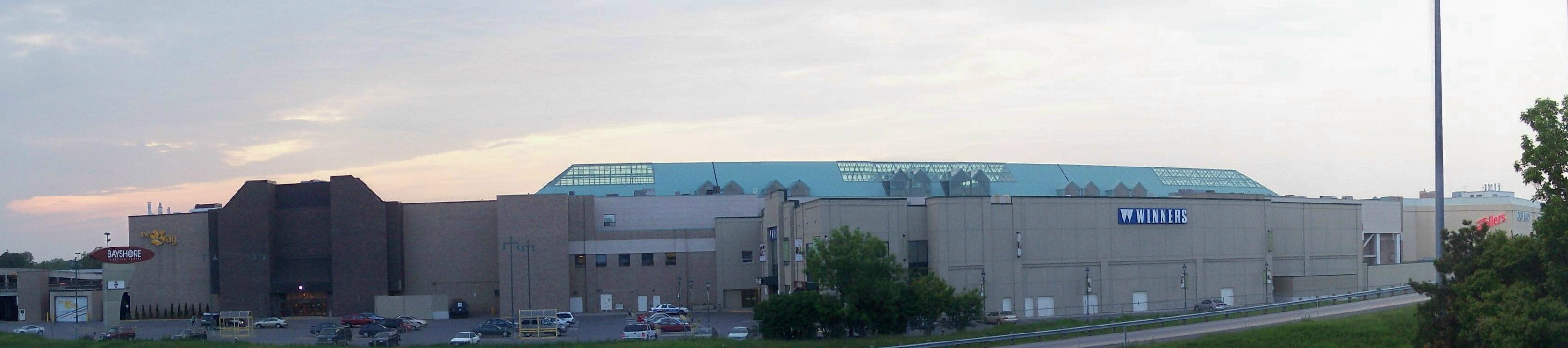 The Bayshore Shopping Centre